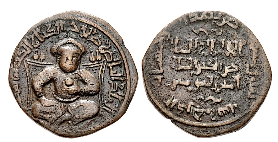 Dirham copper coin showing Saladin (according to inscript of the coin) Mayyafariqin (Silvan/Turkey), 1189-1190 AD Coin shown in the Exhibition "Saladin und die Kreuzfahrer" in 2006 in Mannheim, Germany (Original: Coin Collection of the University Library Leipzig, Germany). Own Photography, background cropped